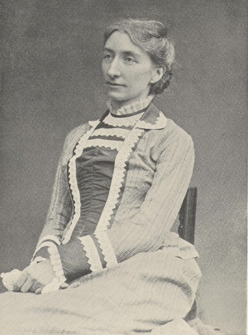 Cosima Wagner, wife of Richard Wagner. Picture taken in London.